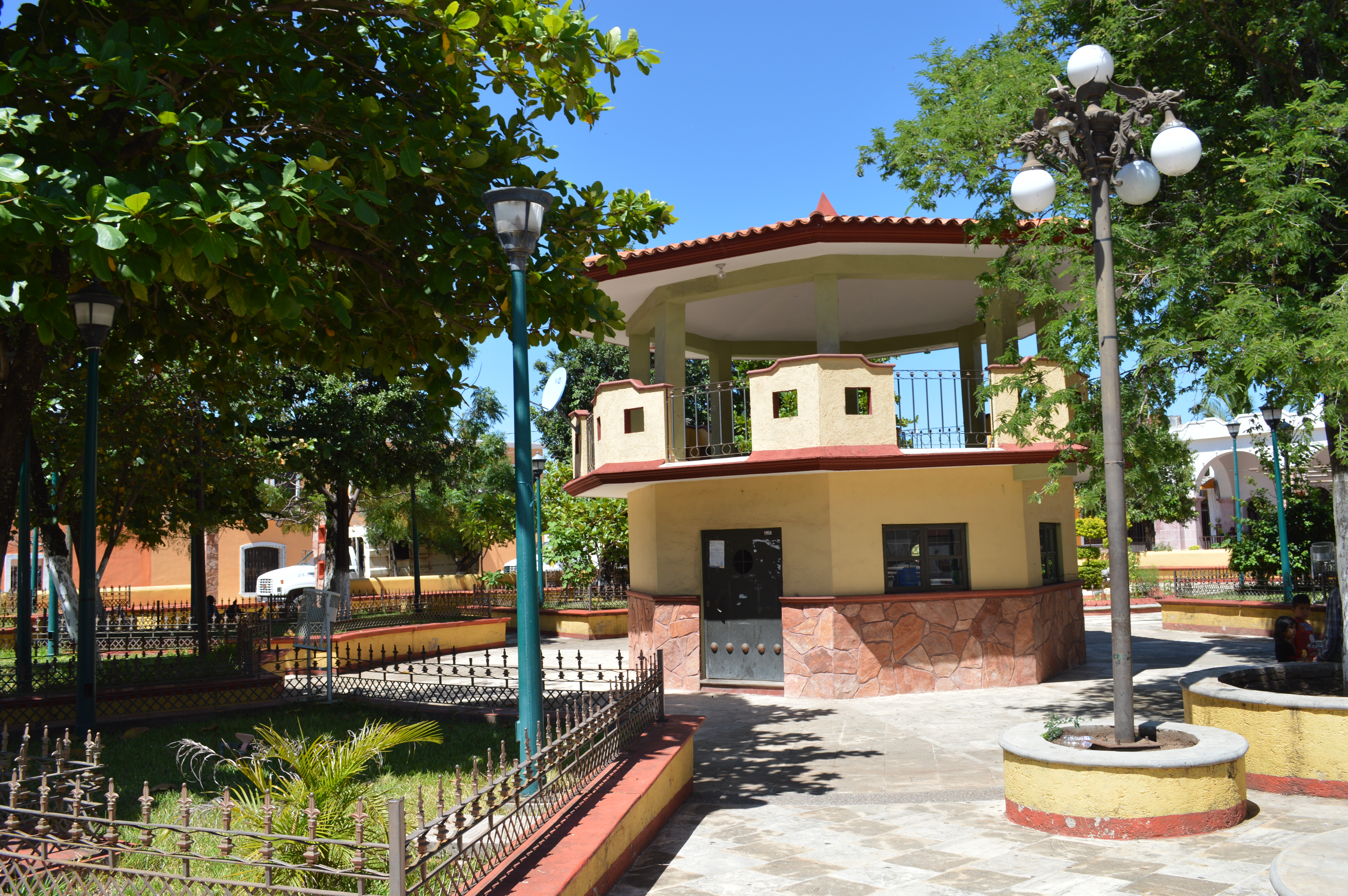 Main plaza of Ixcamilpa, Puebla